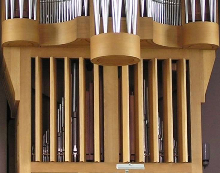 Klais-organ in Kleve, Germany